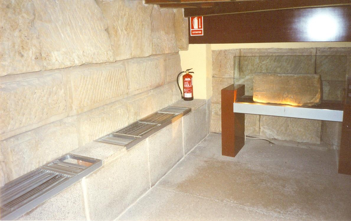 This is the interior of the debod temple in Madrid, it shows the way the manteniance of a histoical monument must not be done.